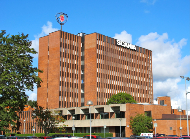 Scania Headquarters in Södertälje in August 2014